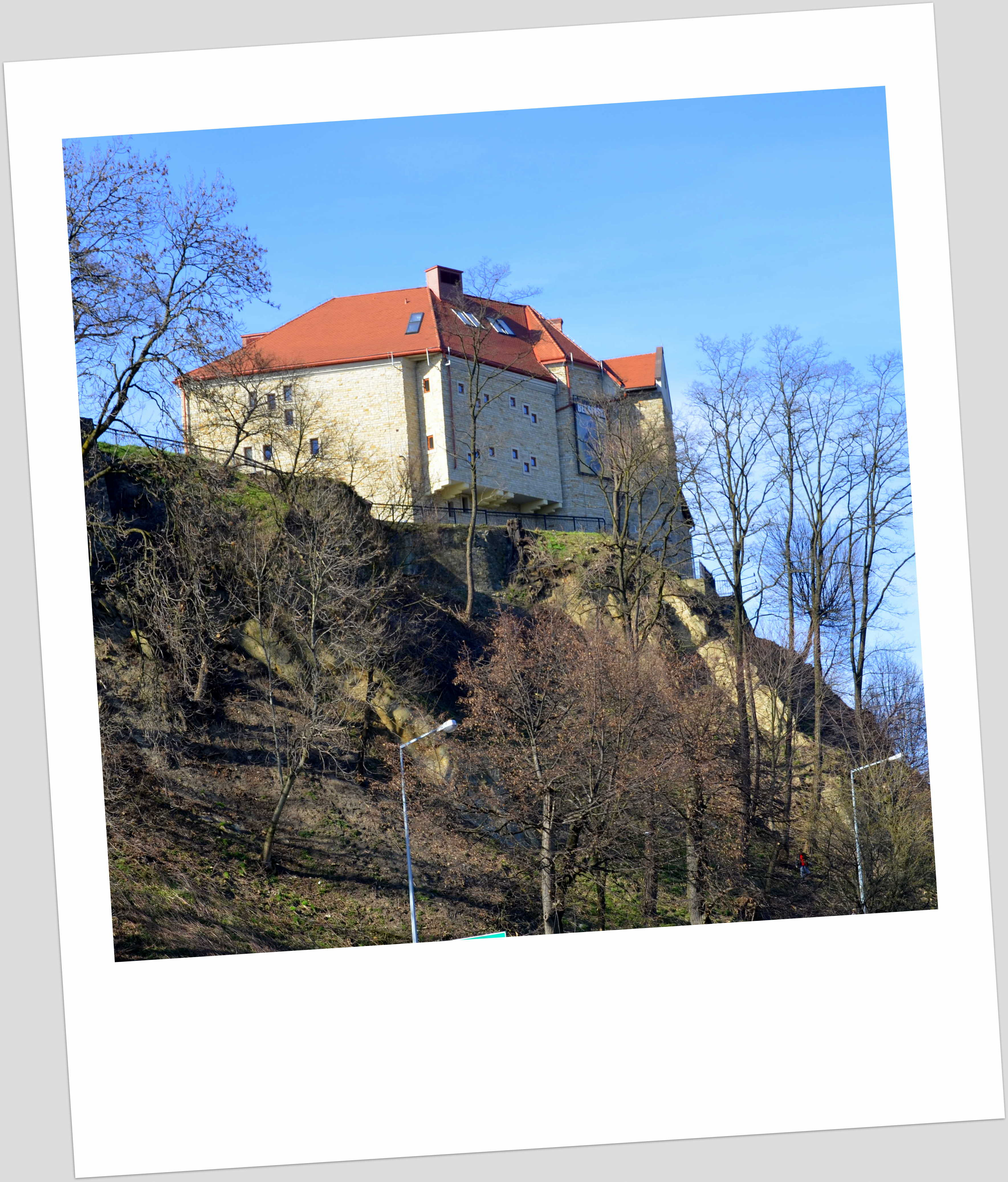 Sanoker Königsschloss